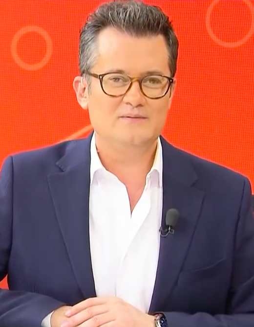 Turkish television presenters Cengiz Semercioğlu and Seren Serengil during their magazine show called Duymadık Demedik.